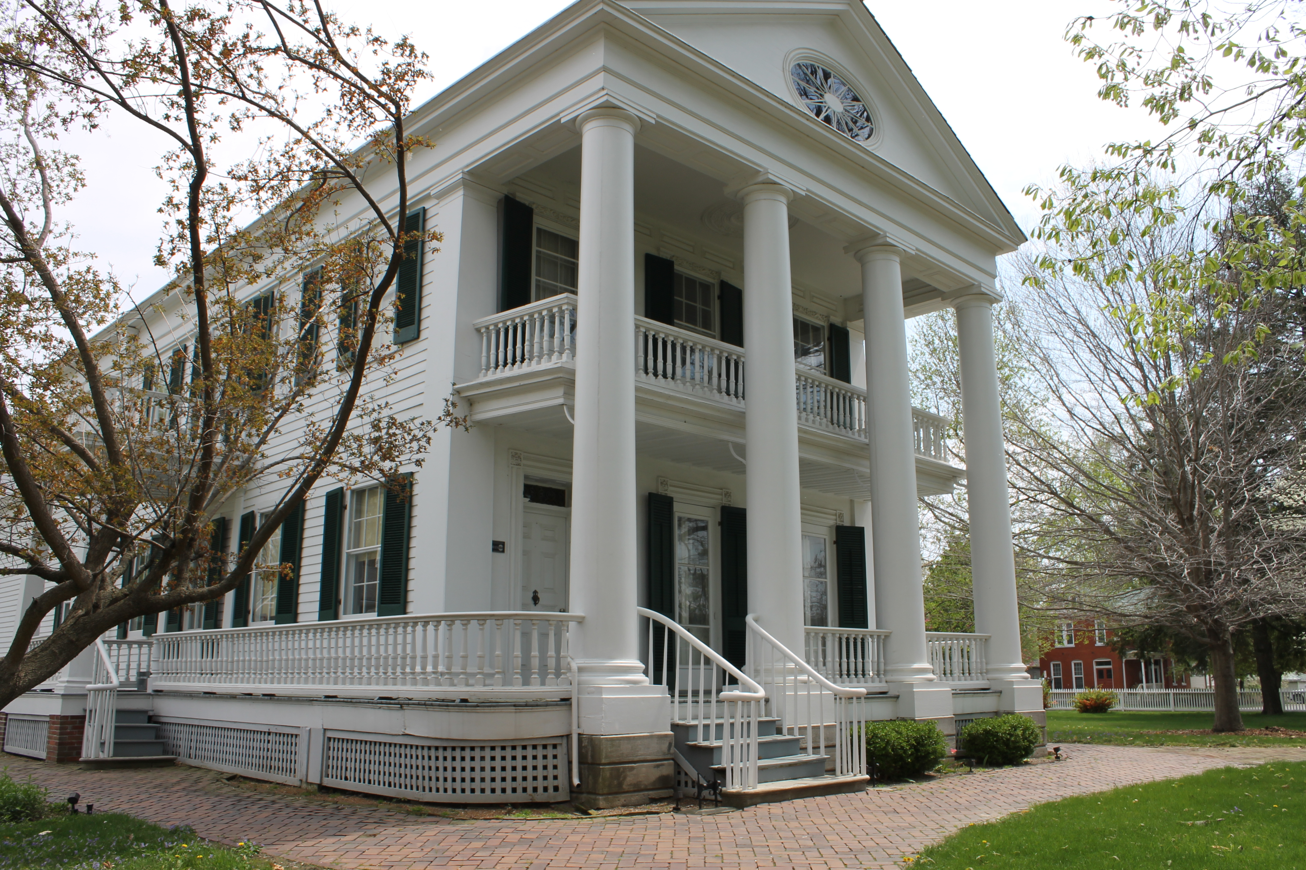 View of the John Wood mansion